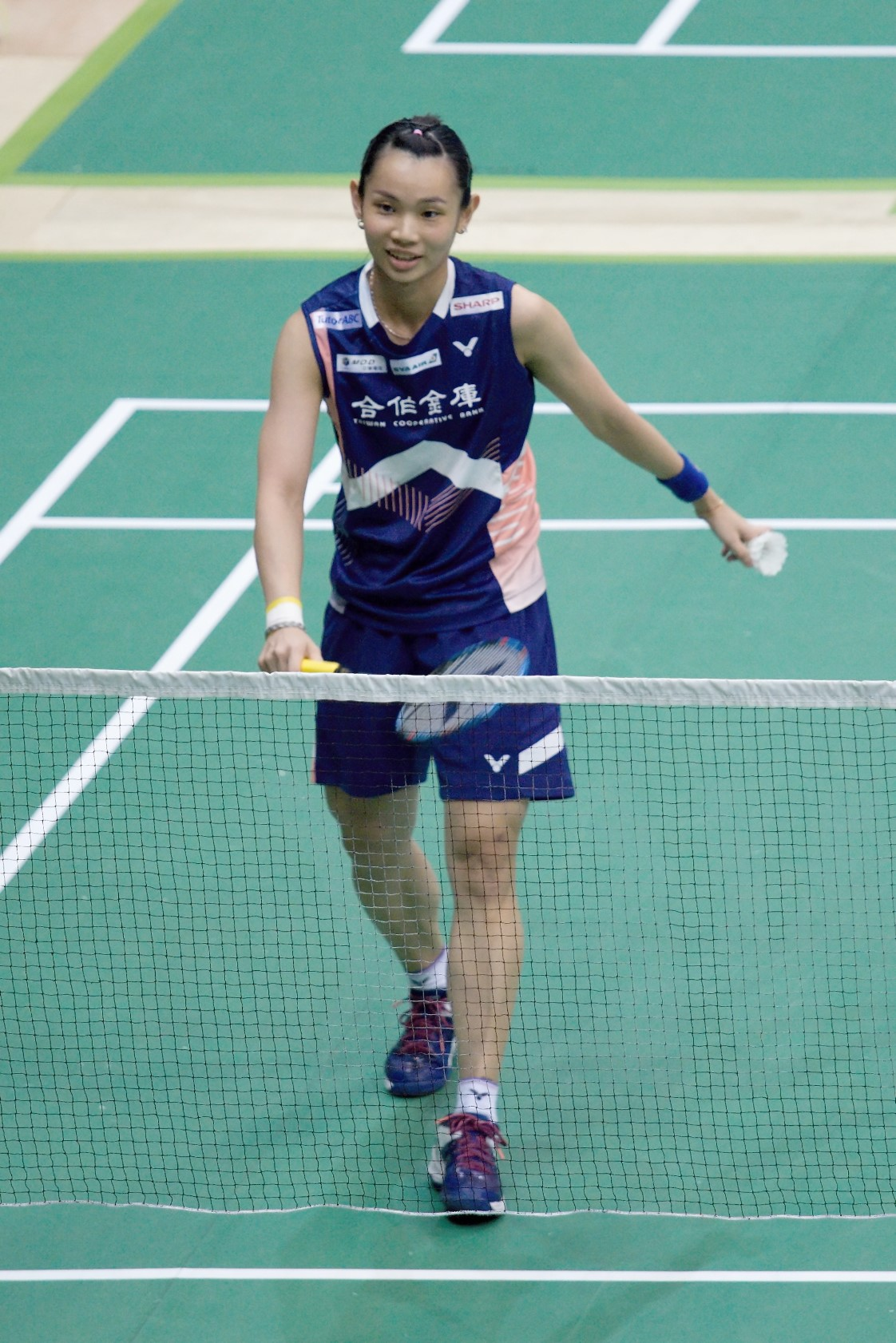 Yonex Chinese Taipei Open 2018 - Quarter Final - Tai Tzu-ying vs Sung Shuo Yun